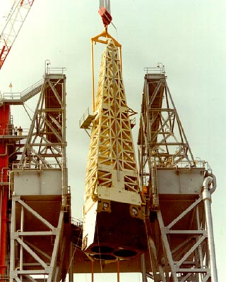 NASA Space Shuttle Main Propulsion Test Article (MPTA-098) being lifted onto its test stand.